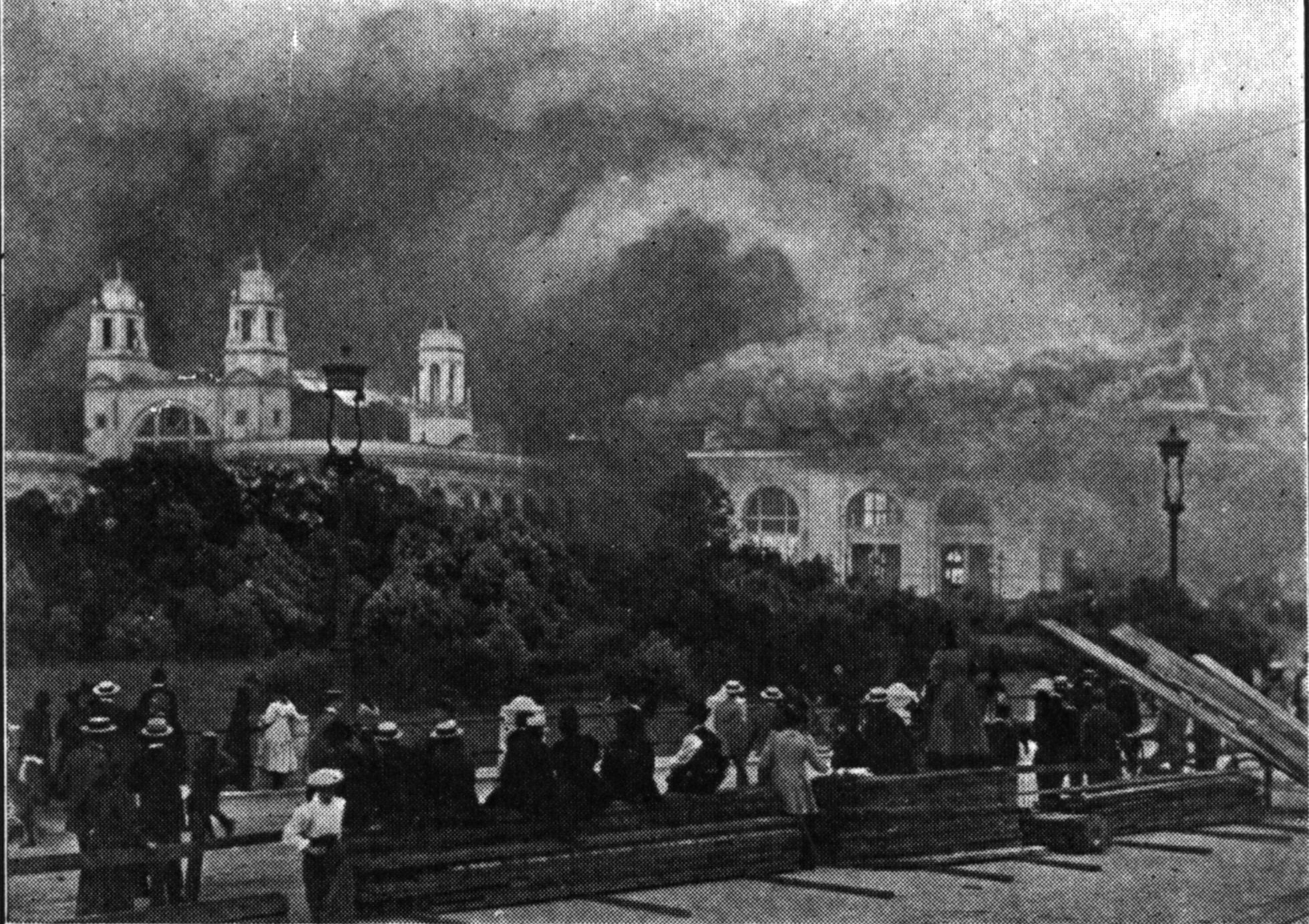 The Burning of the White City. (Electricity Building on left, Mines and Mining Building on right.)